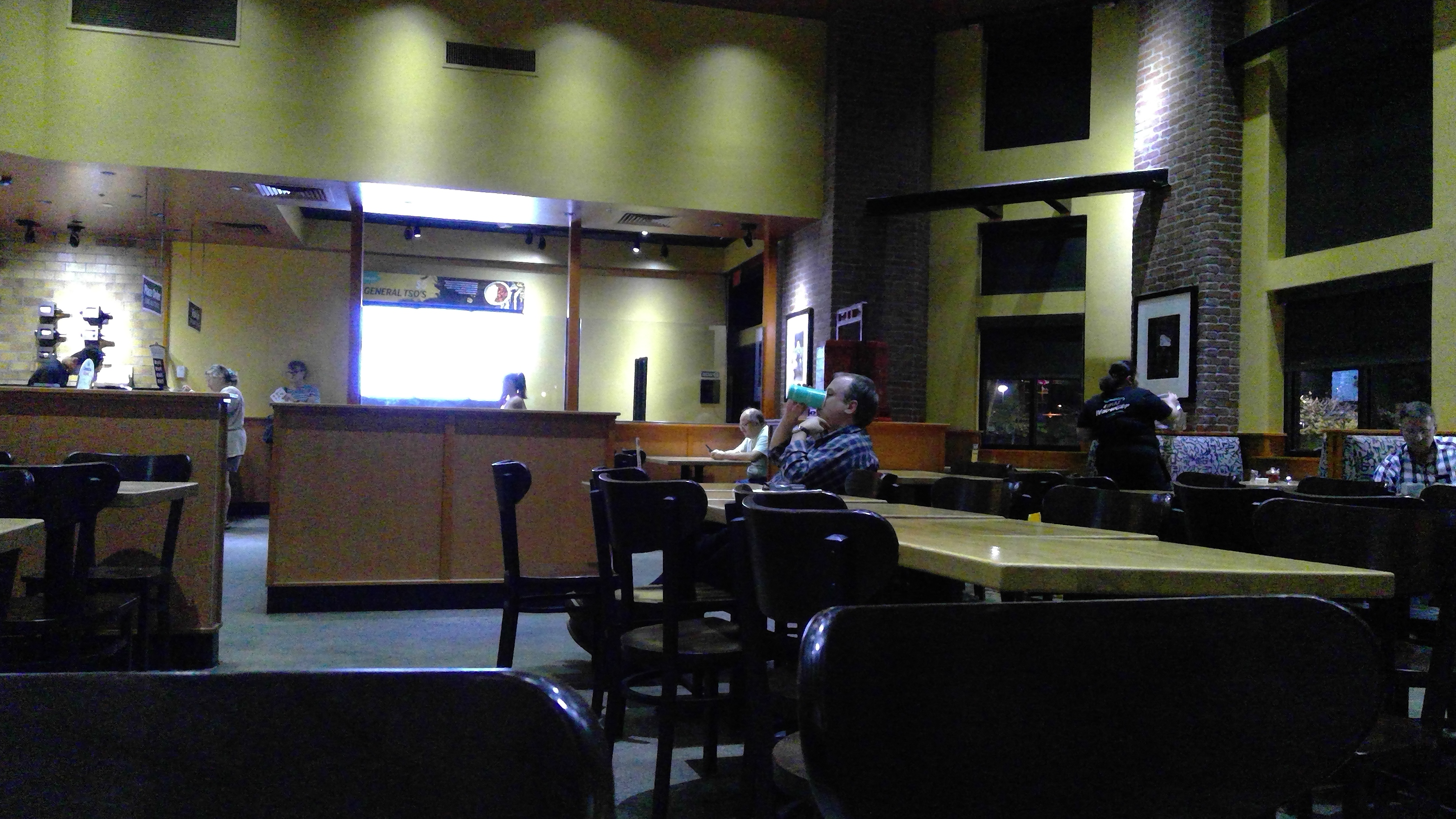 Interior, Pei Wei fast casual restaurant, Gainesville, Virginia